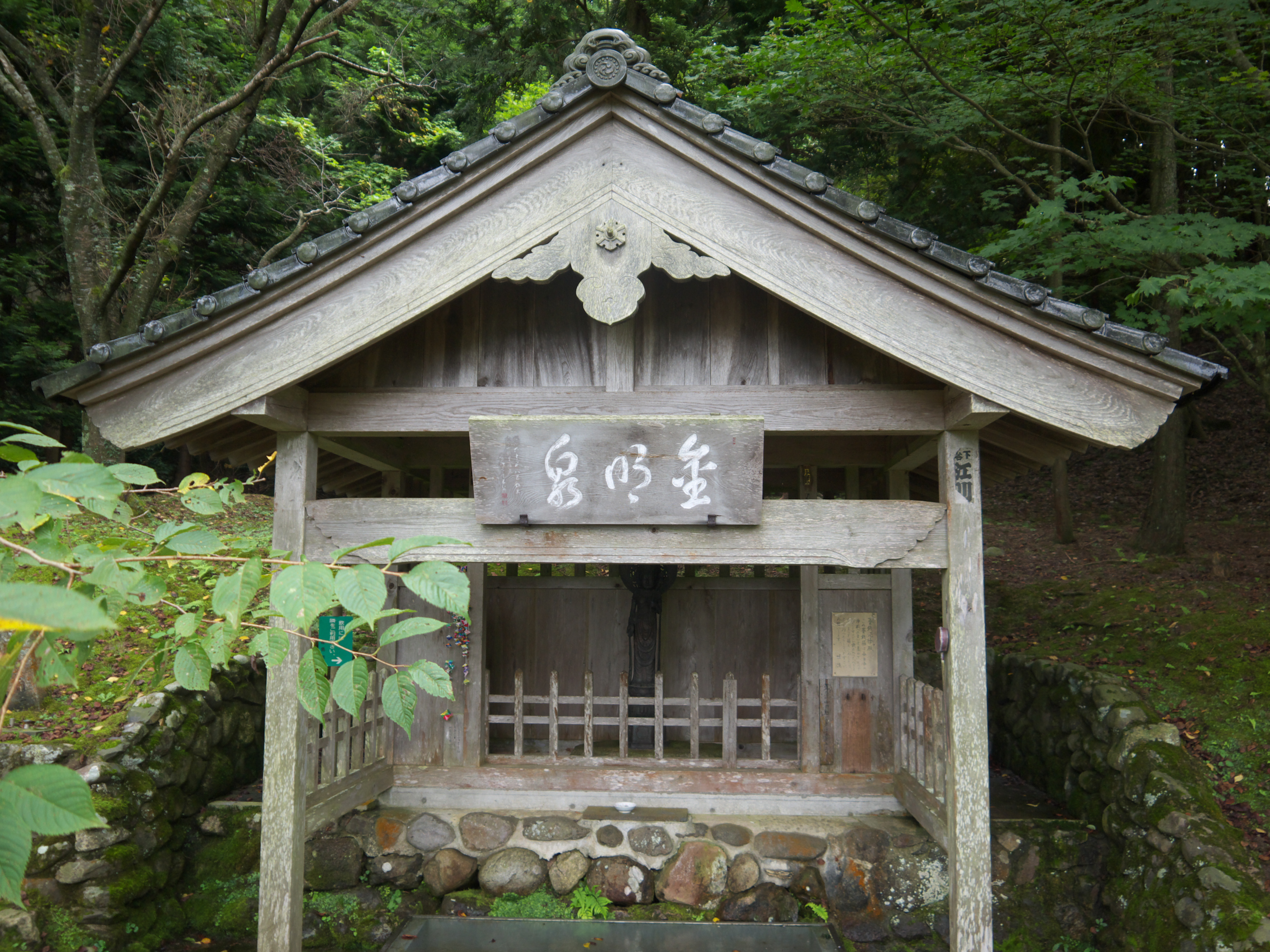 Kowashudo spring in Wajima, Ishikawa, Japan